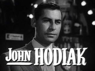 Cropped screenshot of John Hodiak from the film A Lady Without Passport